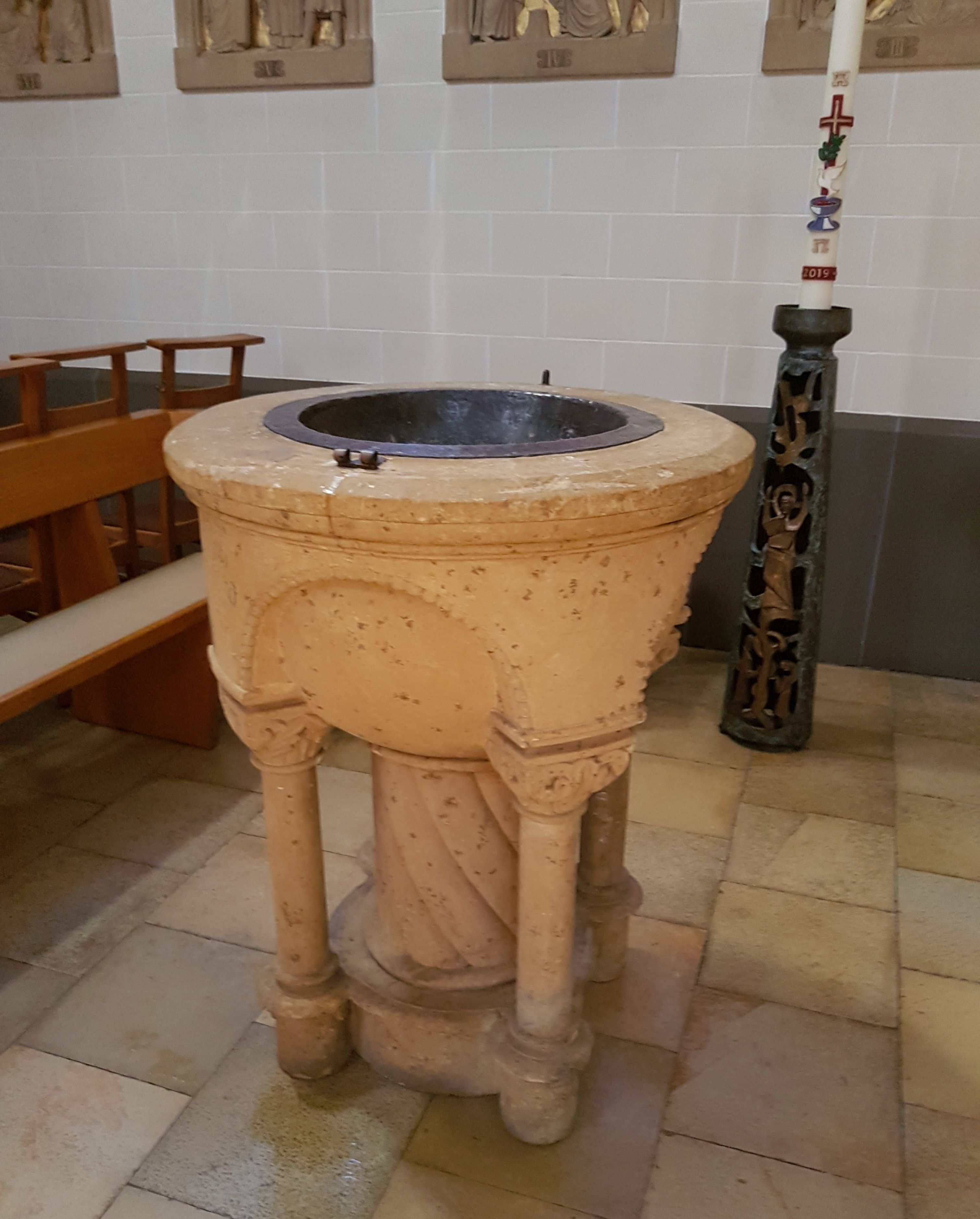 Interior of the Roman Catholic Church in Clervaux (also: Church of St. Cosmas and Damian, lux .: Kierch zu Klierf; french: Église Saints-Côme-et-Damien, german: Kirche in Clerf or Kirche St. Cosmas und Damian) in the Montée de l'église (street) in the municipality of Clervaux' (lux.: Klierf